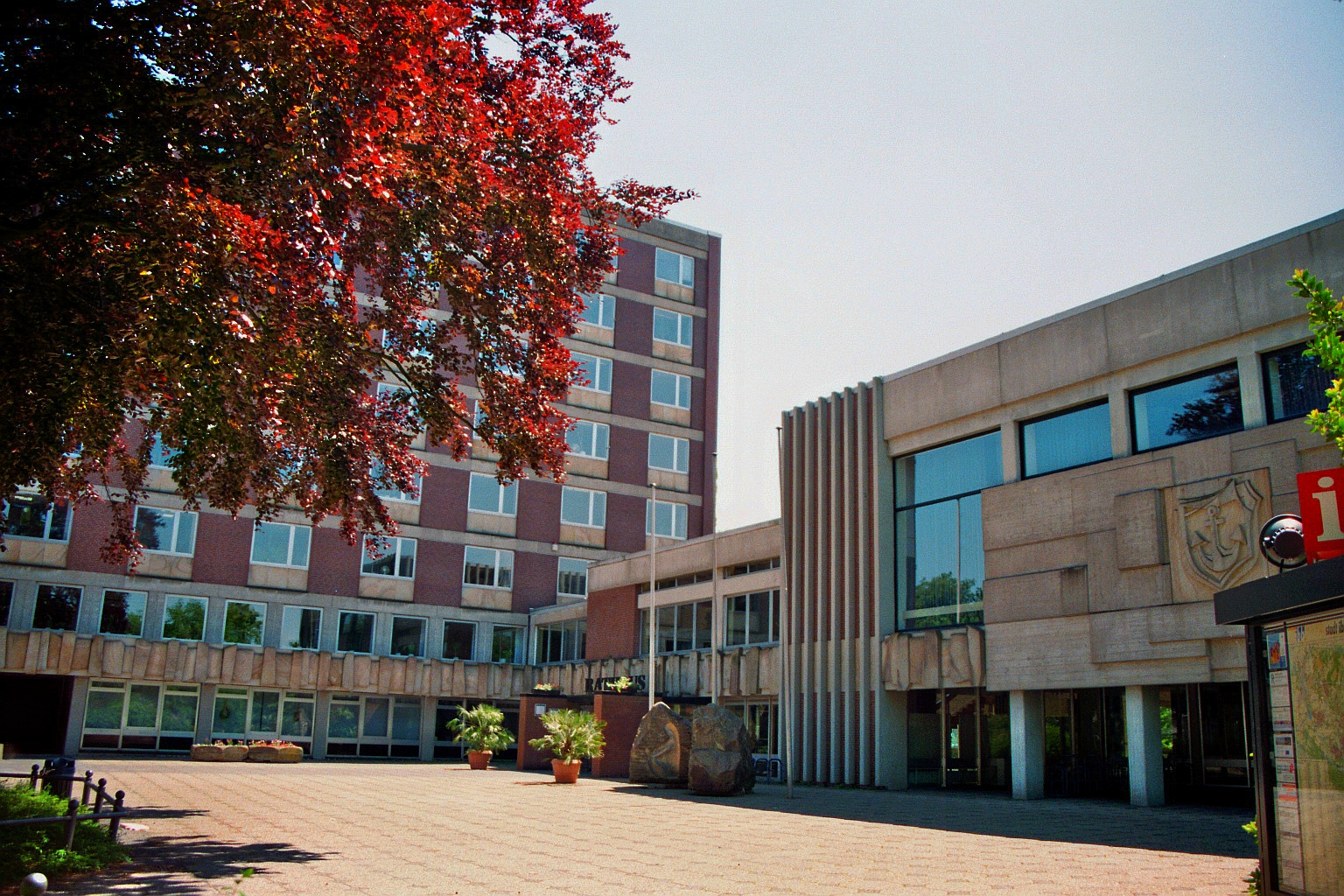 Town hall of Ibbenbüren, Kreis Steinfurt, North Rhine-Westphalia, Germany.